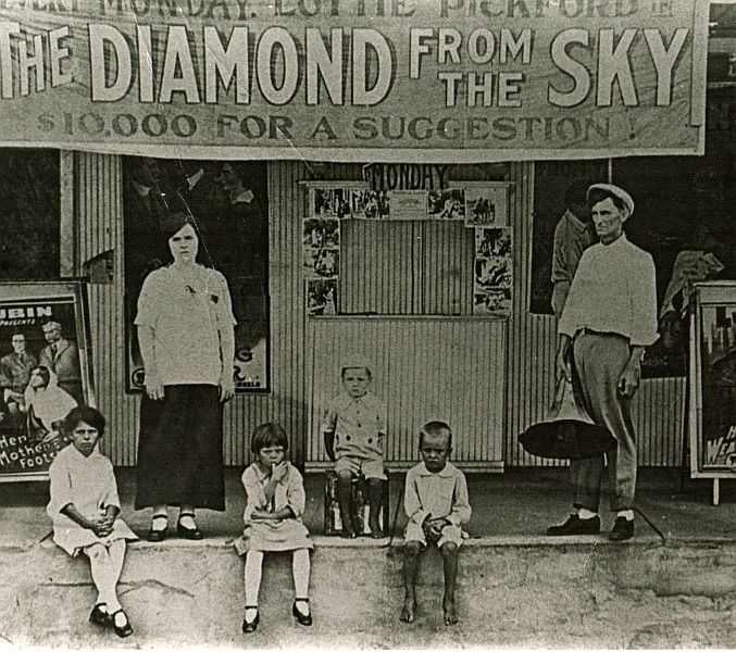 This is a photograph taken around 1916 of Guy Cobb's great grandfather, Charles Clifton Cobb, who ran an old movie theatre in Texas at the same time. The silent film "The Diamond from the Sky", whose banner can be seen in the photo, was released in 1915. Cobb's grandfather Welba Clifton Cobb is also in the photo. The location is believed to be Rockwall, Texas.